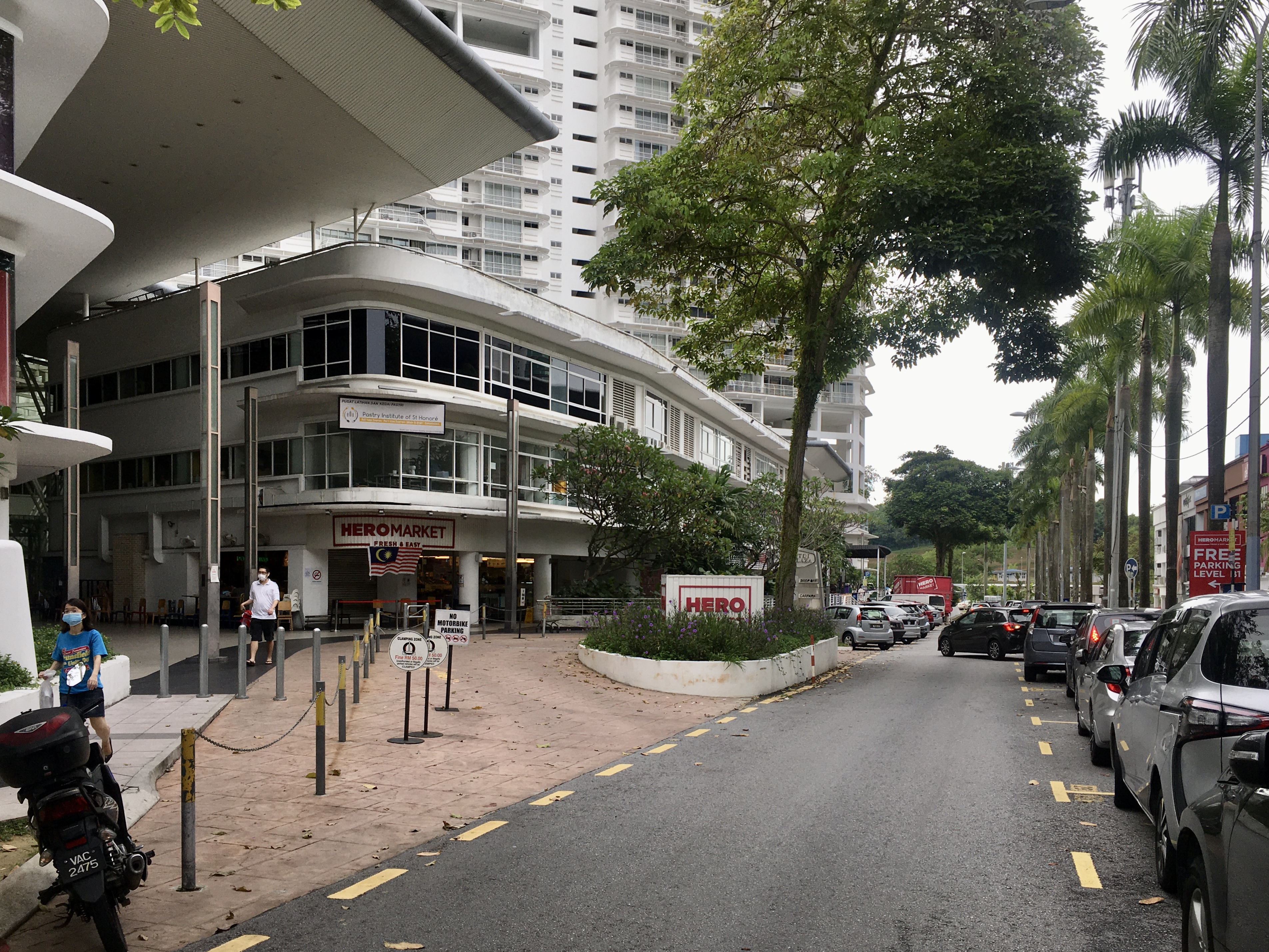 Jalan Wan Kadir 3, Taman Tun Dr Ismail, Kuala Lumpur, looking south towards the MRT station, with Plaza TTDI at the left.